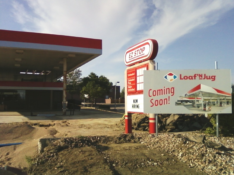 A former Conoco, more recently EZ Stop, being converted into a Loaf 'N Jug location in south Jefferson County, Colorado along W Belleview Ave.